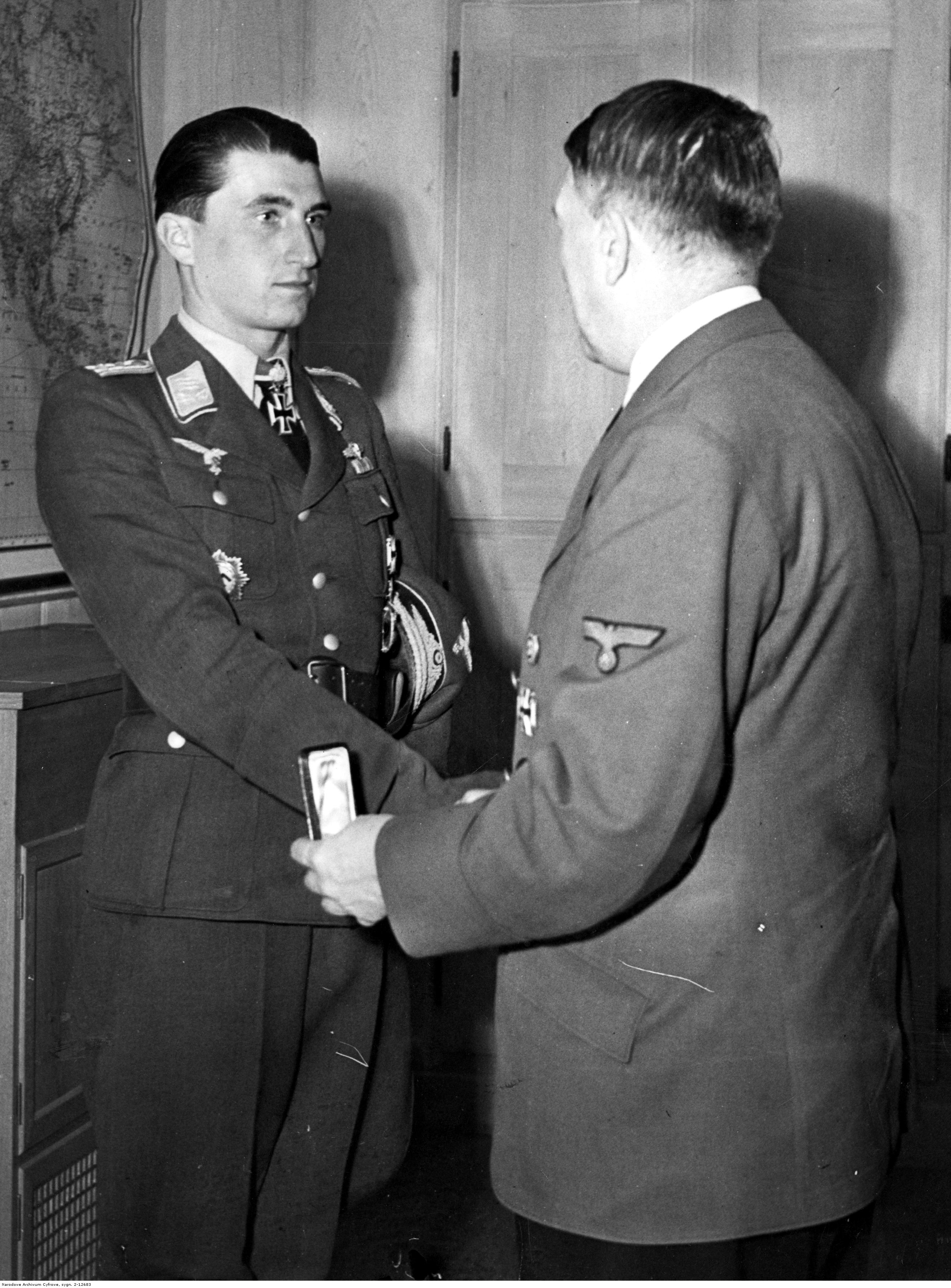 Leader of the Third Reich Adolf Hitler (on the right) hands Captain Walter Nowoty, as the eighth soldier of the Wehrmacht, Oak Leaf with Swords and Diamonds in connection with his 250th air victory.